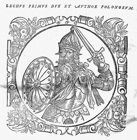 A picture of Lech, legendary founder of Gniezno.